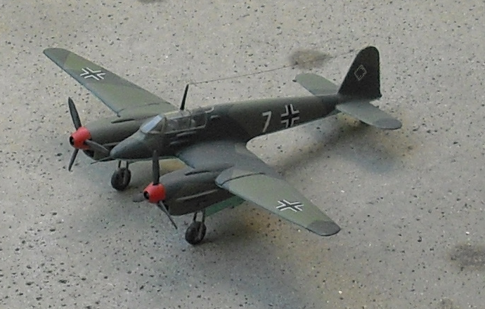 Model photo Focke-Wulf Fw 187